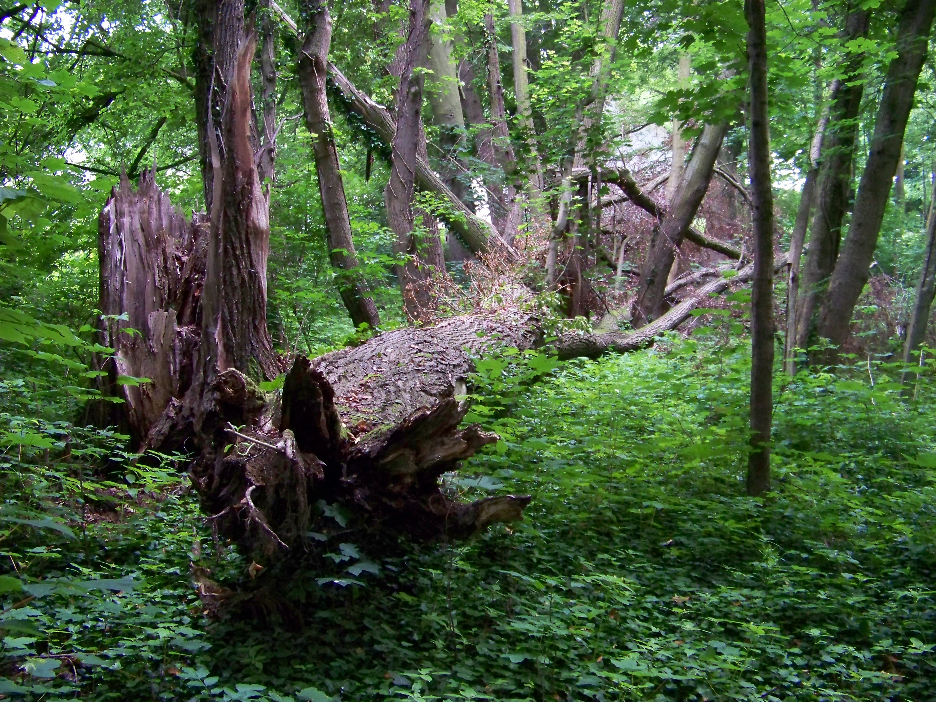 Říčany-Kuří, Prague-East District, Central Bohemian Region, Czech Republic. A desolate forest park at the west of the village.